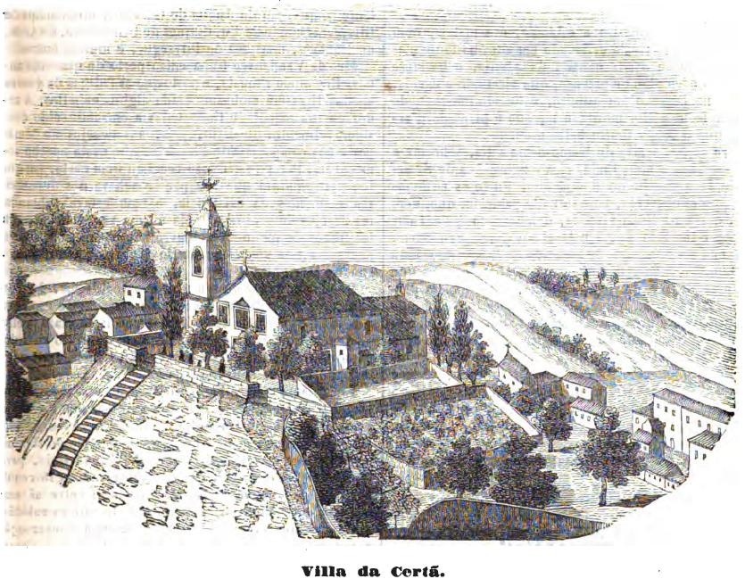 Sertã